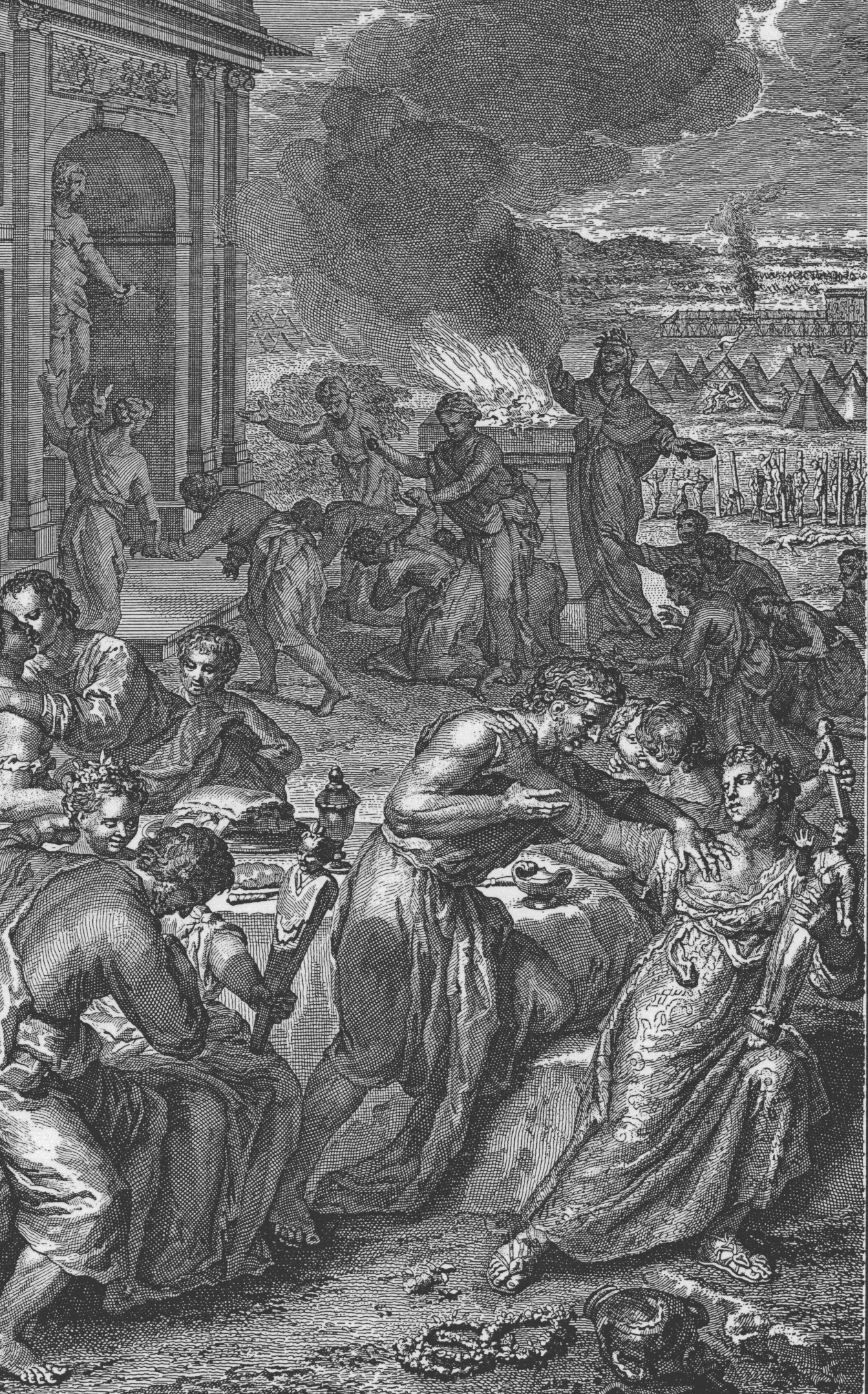 Moab leads Israel into sin, as in Numbers 25:1-8, illustration from the 1728 Figures de la Bible; illustrated by Gerard Hoet (1648-1733) and others, and published by P. de Hondt in The Hague